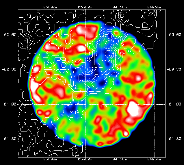 This image shows a ROSAT PSPC false-color image of a portion of a nearby stellar wind superbubble stretching across the constellations Eridanus and Orion and known as the Orion-Eridanus Bubble. Soft X-rays are emitted by hot gas (T ~ 2-3 million degrees Celsius) in the interior of this superbubble, and this bright object forms the background for this image of the "shadow" of a filament of gas and dust. The filament is shown by the overlaid contours, which represent 100 micron emission from dust at a temperature of about 30 degrees Kelvin (30 degrees Celsius above absolute zero) as measured by the infrared IRAS satellite. This filament absorbs the soft X-rays in this image (which is made from X-rays of energies between 100 and 300 eV), indicating that the hot gas is located behind the filament. This filament may be part of the shell of neutral gas that surrounds the hot bubble, whose interior is energized by UV light and stellar winds from hot stars in the Orion OB1 association. These stars energize a superbubble about 1200 light years across which is observed in the optical (H alpha) and X-ray portions of the spectrum.